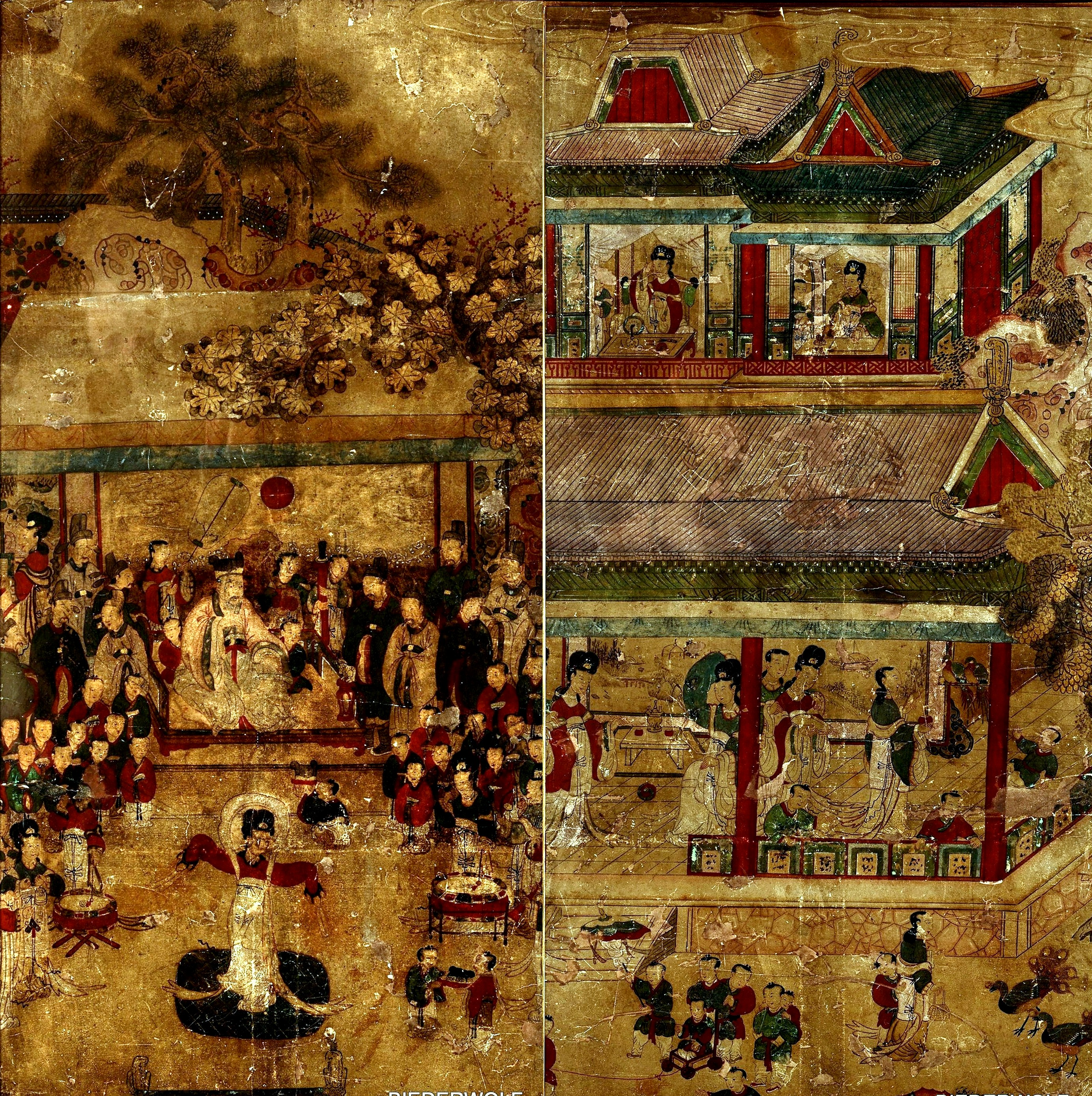 Korean Joseon Dynasty painting called ‘Toseokhwa’ (도석화), paintings of Buddhist and Taoist themes, King Mu of Zhou visits the queen mother of the west. This type of painting often uses lavish colours to narrate the festive story, and represents the hope for eternal youth. This type of screen was used as a backdrop for joyous occasions (birth, wedding, 60th birthday…). See the Gyeonggi Provincial Museum’s ‘Yojiyeondo’ as a reference. Also, the paintings present similar features and details to a folding screen called ‘One Hundred Children Folding Screen, in the collection of the Ewha Womans University Museum.